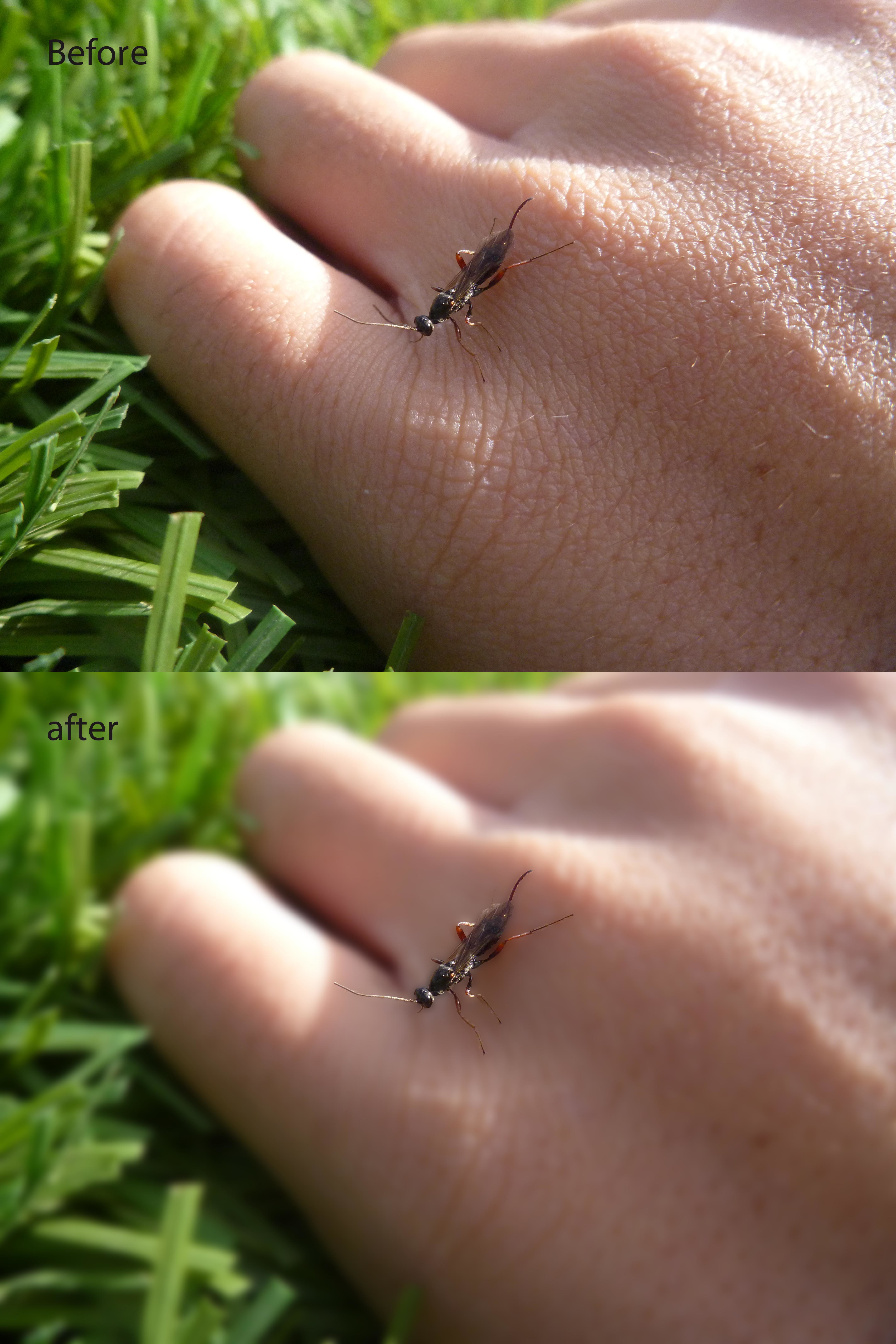 A bug on a person's hand that has been edited with the Bokeh effect with a gaussian blur.